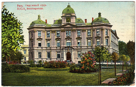 Vintage picture postcard of Riga Regional Court